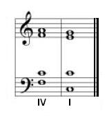 Plagal cadence